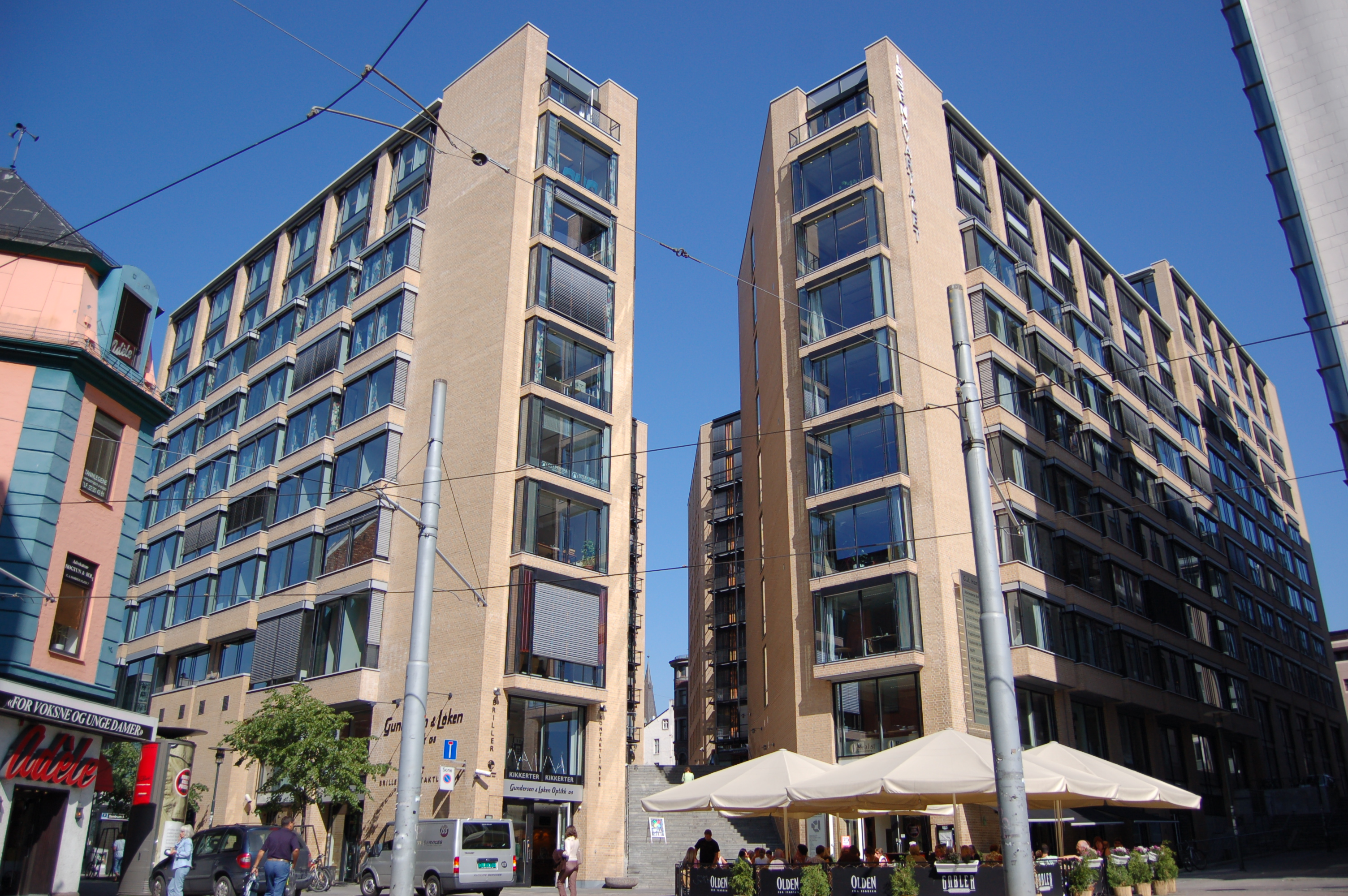 C.J. Hambros plass 2 in Oslo, Norway. The facade used for the Norwegian soap-opera Hotel Cæsar, but in real life the building houses the National Authority for Investigation and Prosecution of Economic and Environmental Crime in Norway.